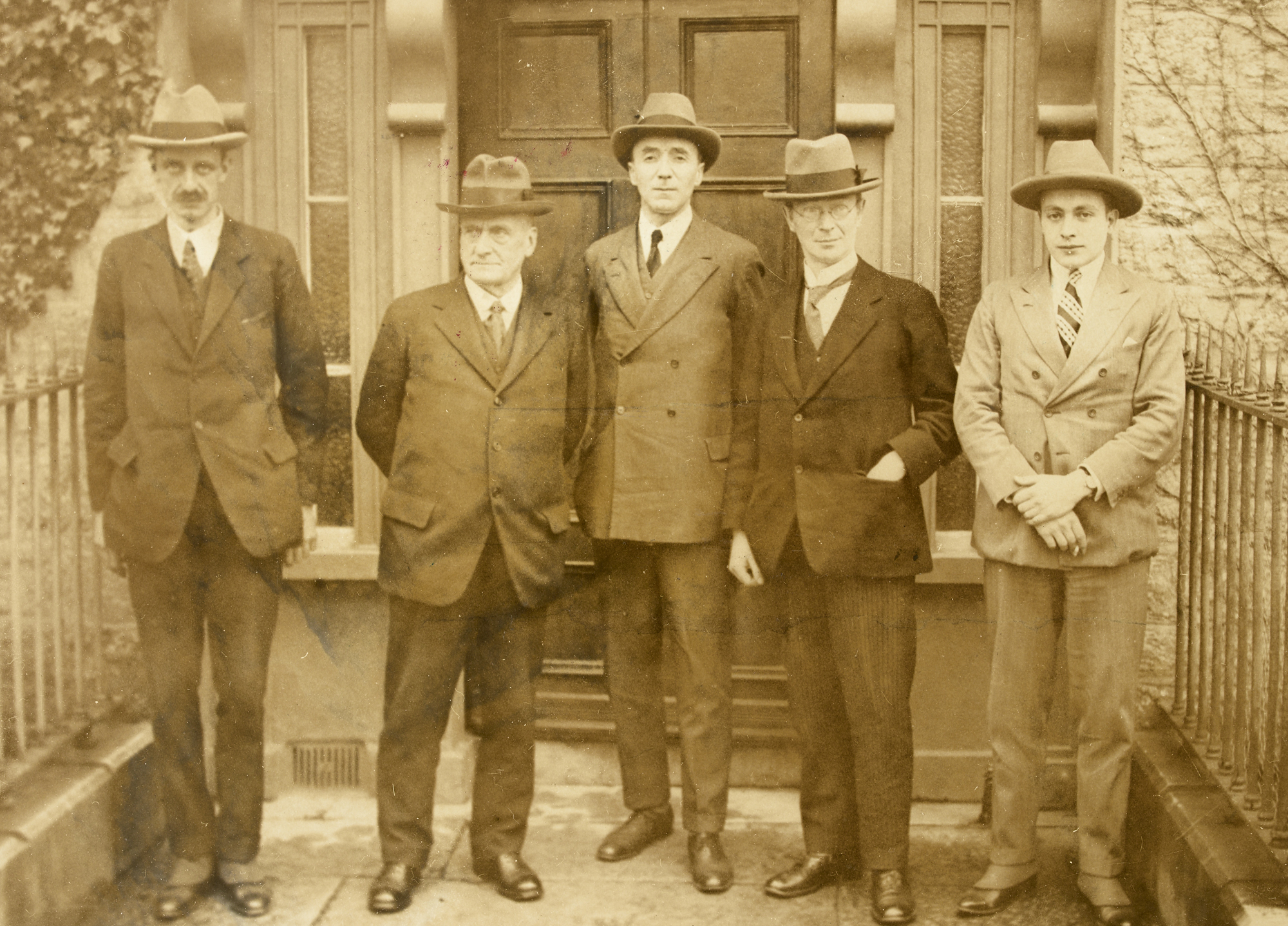 Group taken after the arrival of the members of the Boundary Commission, with Secretaries, The Mall, Armagh. - Left to right - Mr. Francis Bernard Bourdillon, C.B.E., M.A. (Secretary to Commission); Mr. J. R. Fisher (Northern Ireland), Mr. Justice Feetham (Chairman), Dr. Eoin MacNeill (Free State representative), and Mr. C. Beerstacher (private secretary to Mr. Justice Feetham). - Photo, Hogan.